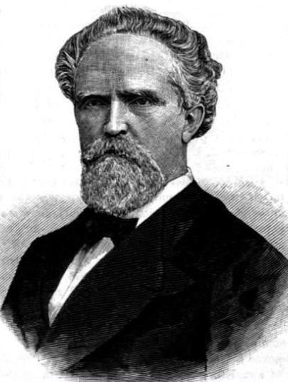 George D. Tillman, US Representative from South Carolina